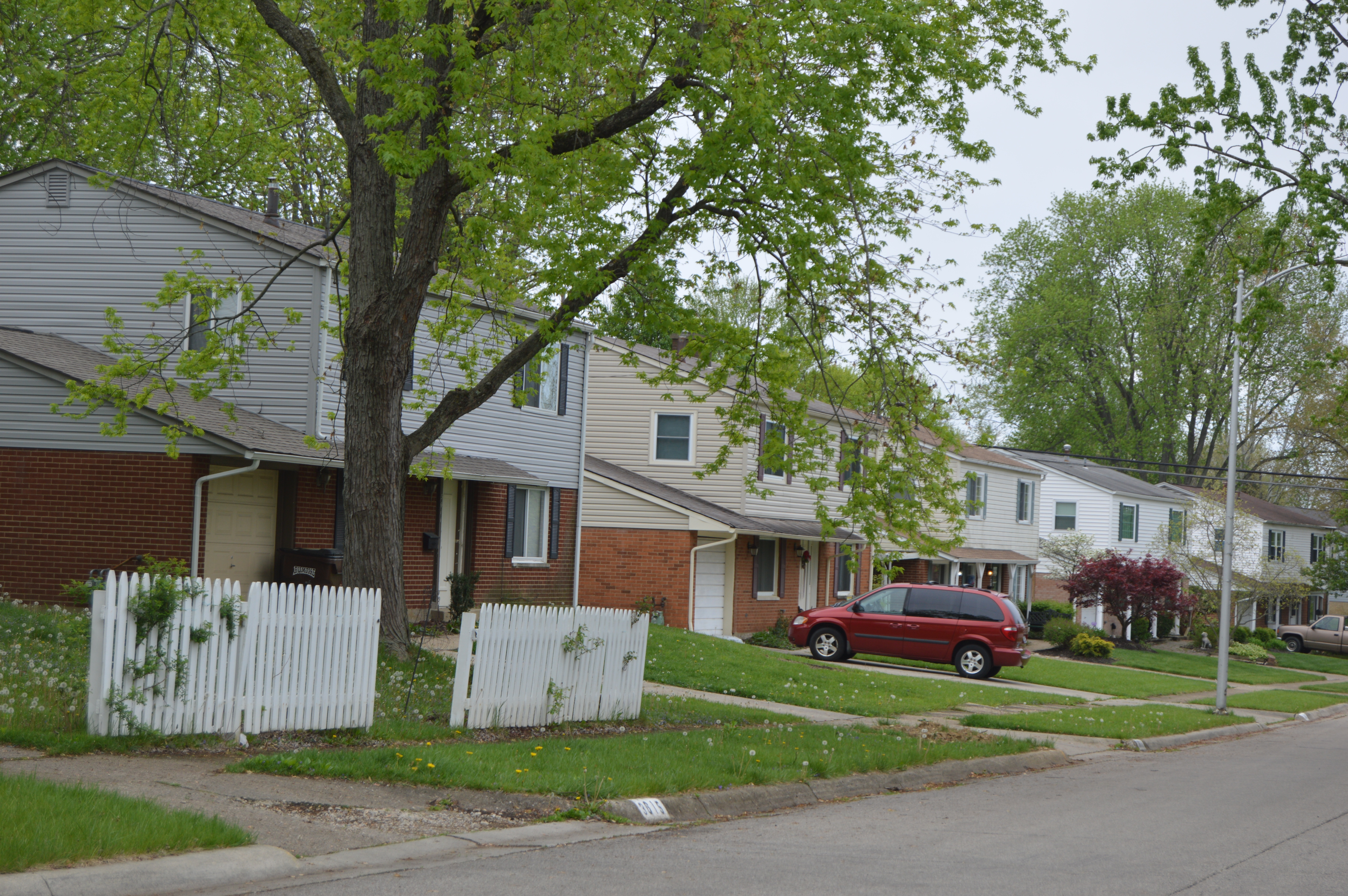 Houses on Panama Drive west of Buenos Aires Boulevard in Huber Ridge, Ohio, United States.